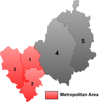 Map of Guigang in Guangxi AR